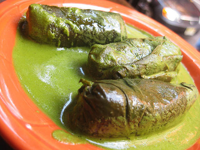 Stuffed grape leaves with yogurt mint sauce - Hummus Place